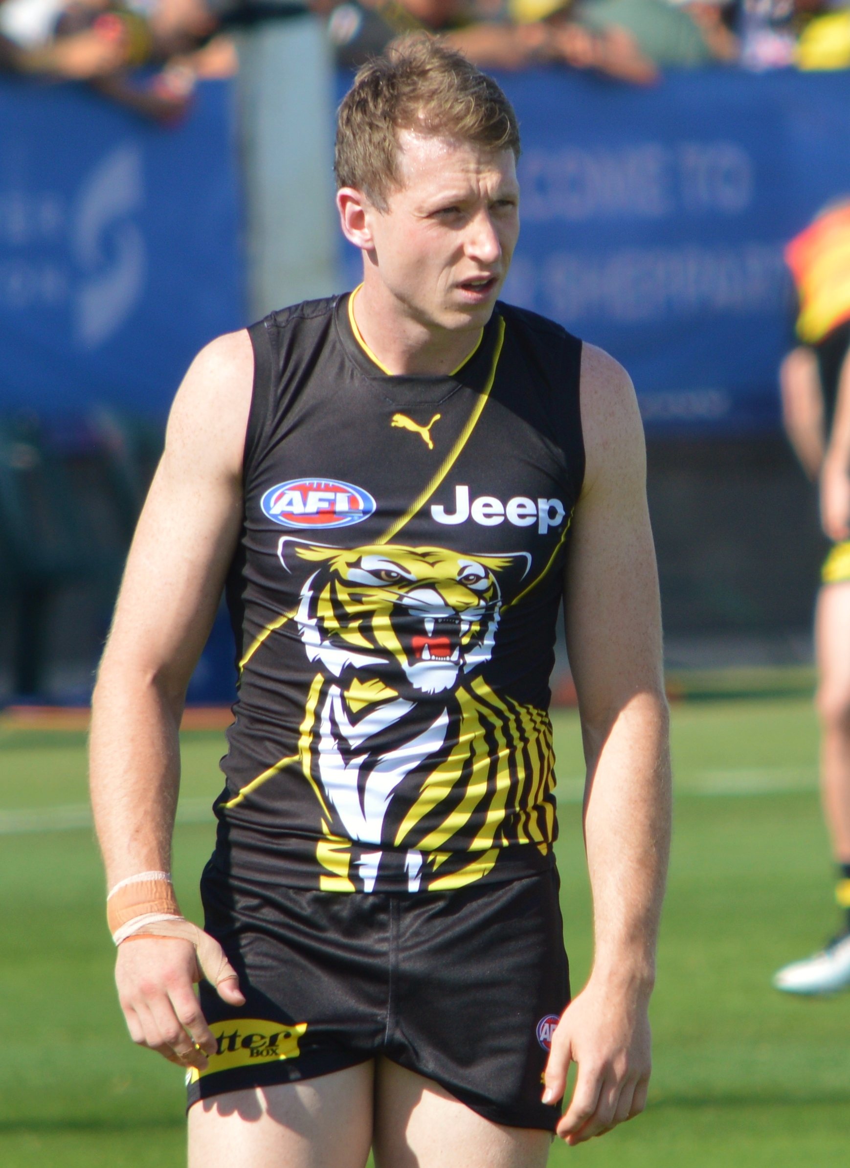 Dylan Grimes with Richmond during a JLT Community Series match against Melbourne in Shepparton in March 2019.